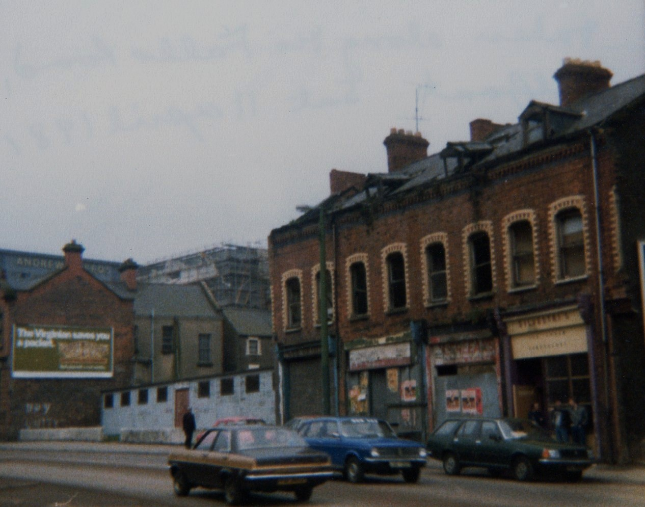 Falls Road west Belfast 1981